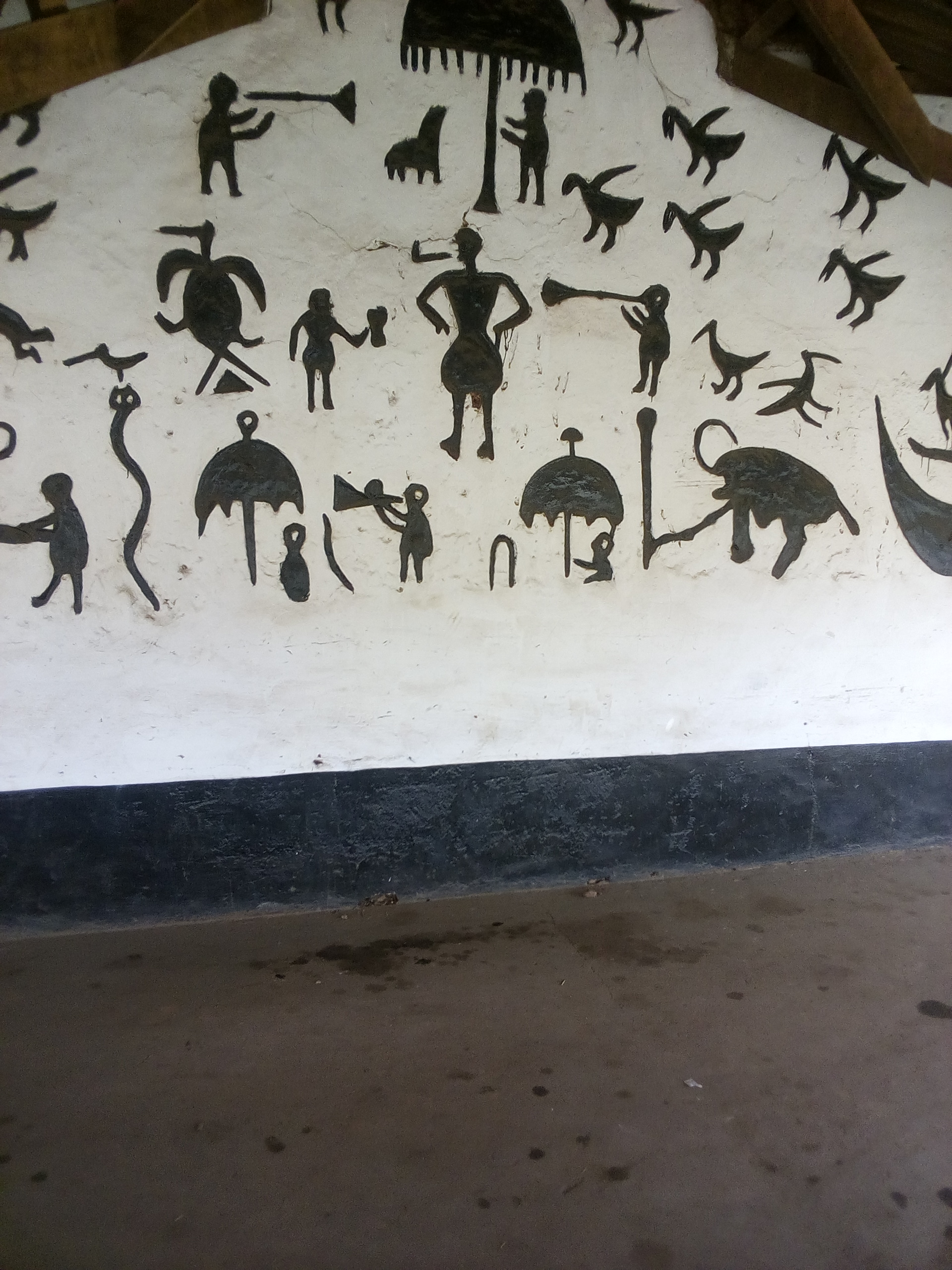 Image shows walls with the unique ancient art work of the Yoruba kings . It depicts features of the Yoruba heritage. This is an image of "African people at work" from Nigeria